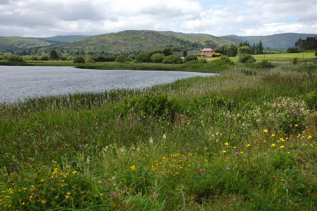 Lough Allua, Ballingeary, near to Ballingeary and Inchinossig Bridge, Cork, Ireland. Lake beside the road two miles to the east of Ballingeary.